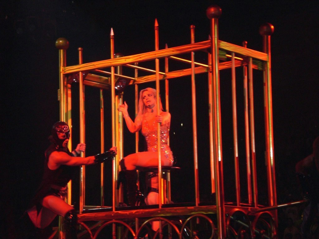 Spear sperforming Piece of Me